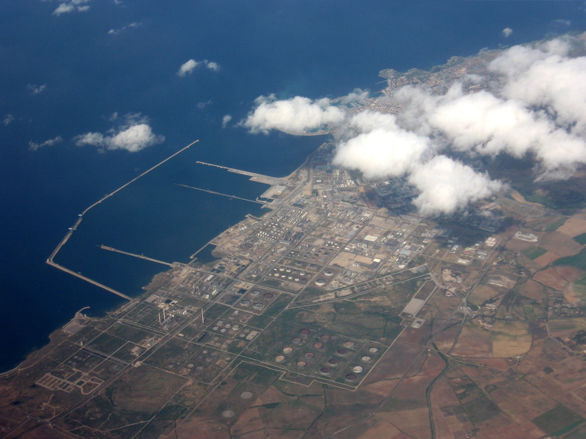 Porto Torres - chemical industry